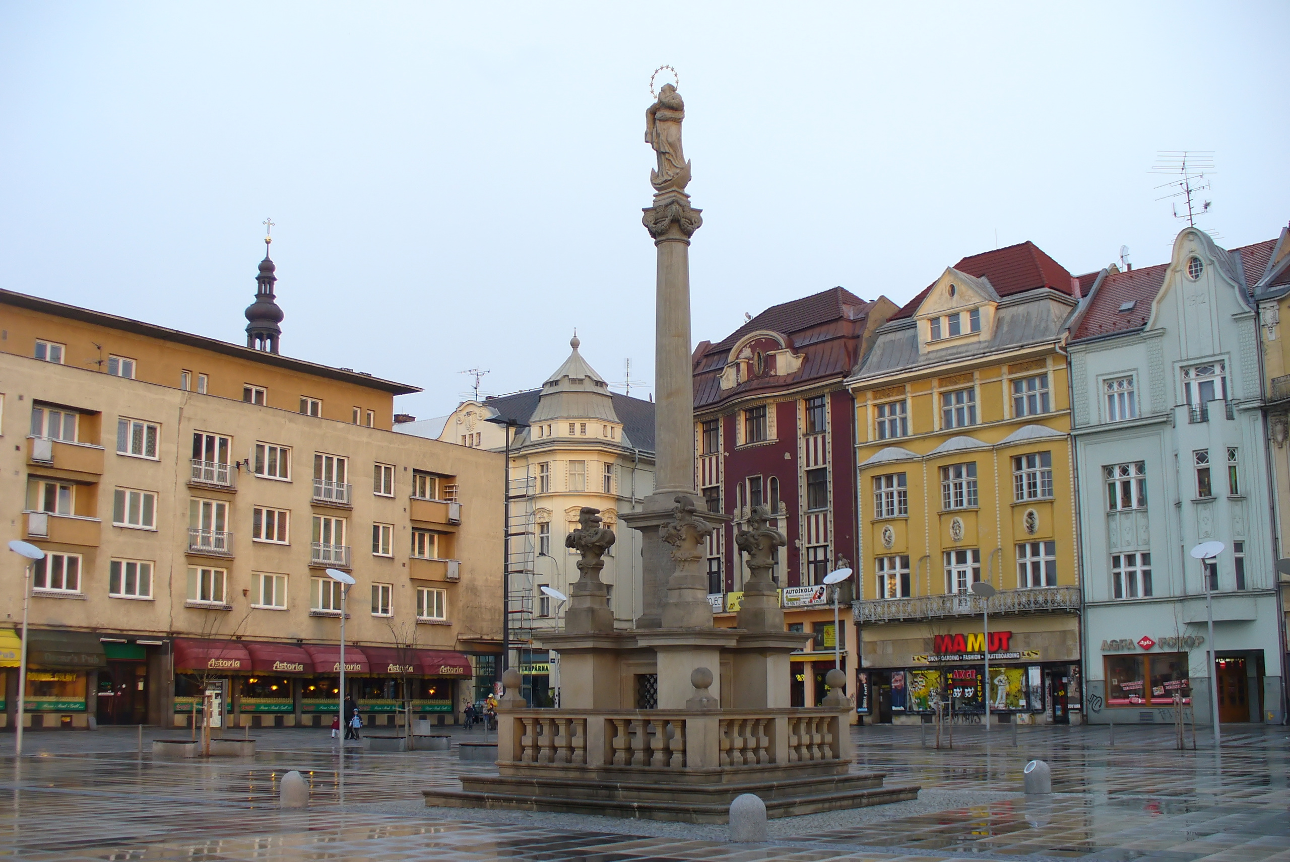 Masaryk Square in Ostrava